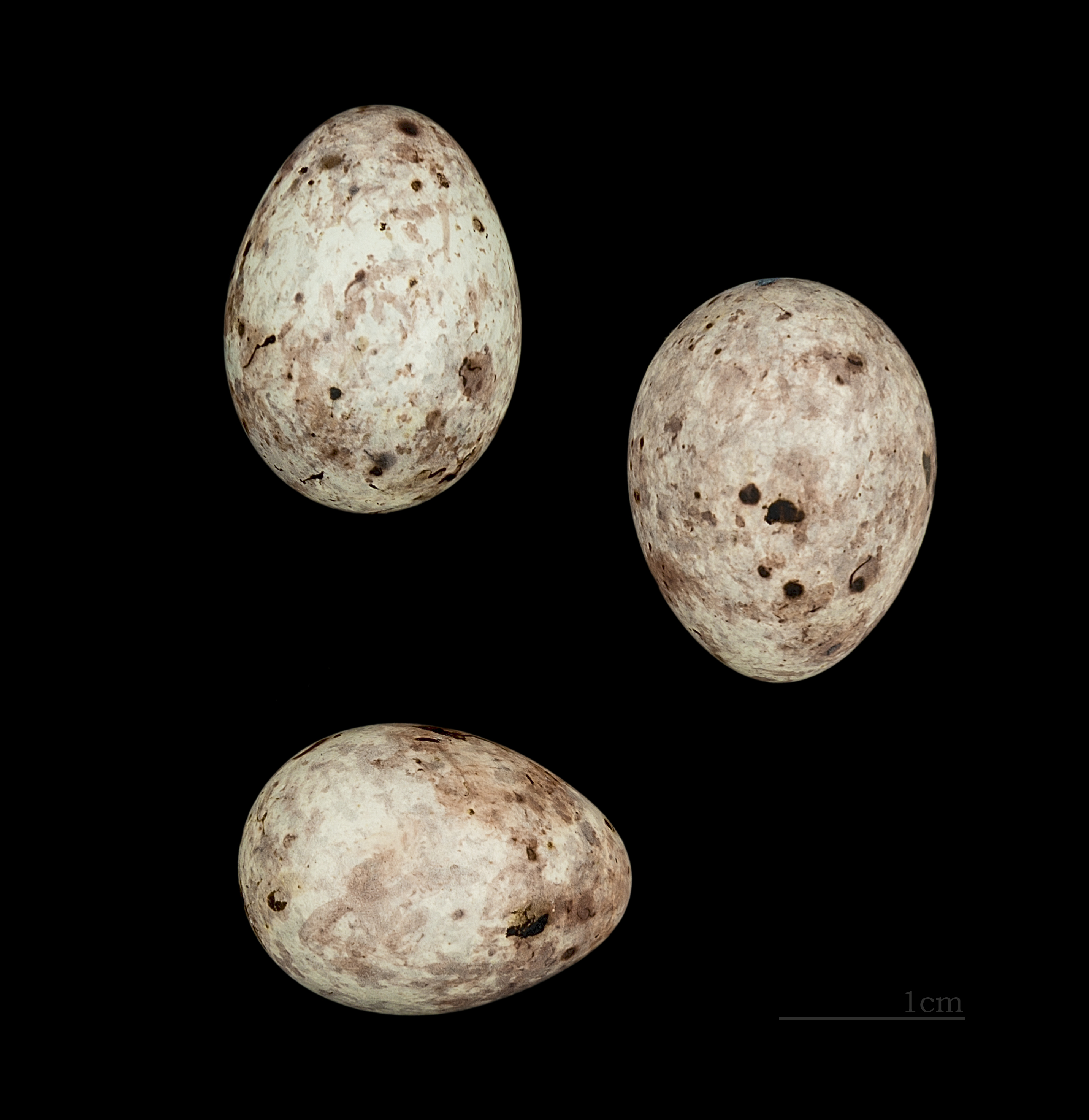 Egg of Black-faced Bunting. Collection of Henri Heim de Balsac/Jacques Perrin de Brichambaut.